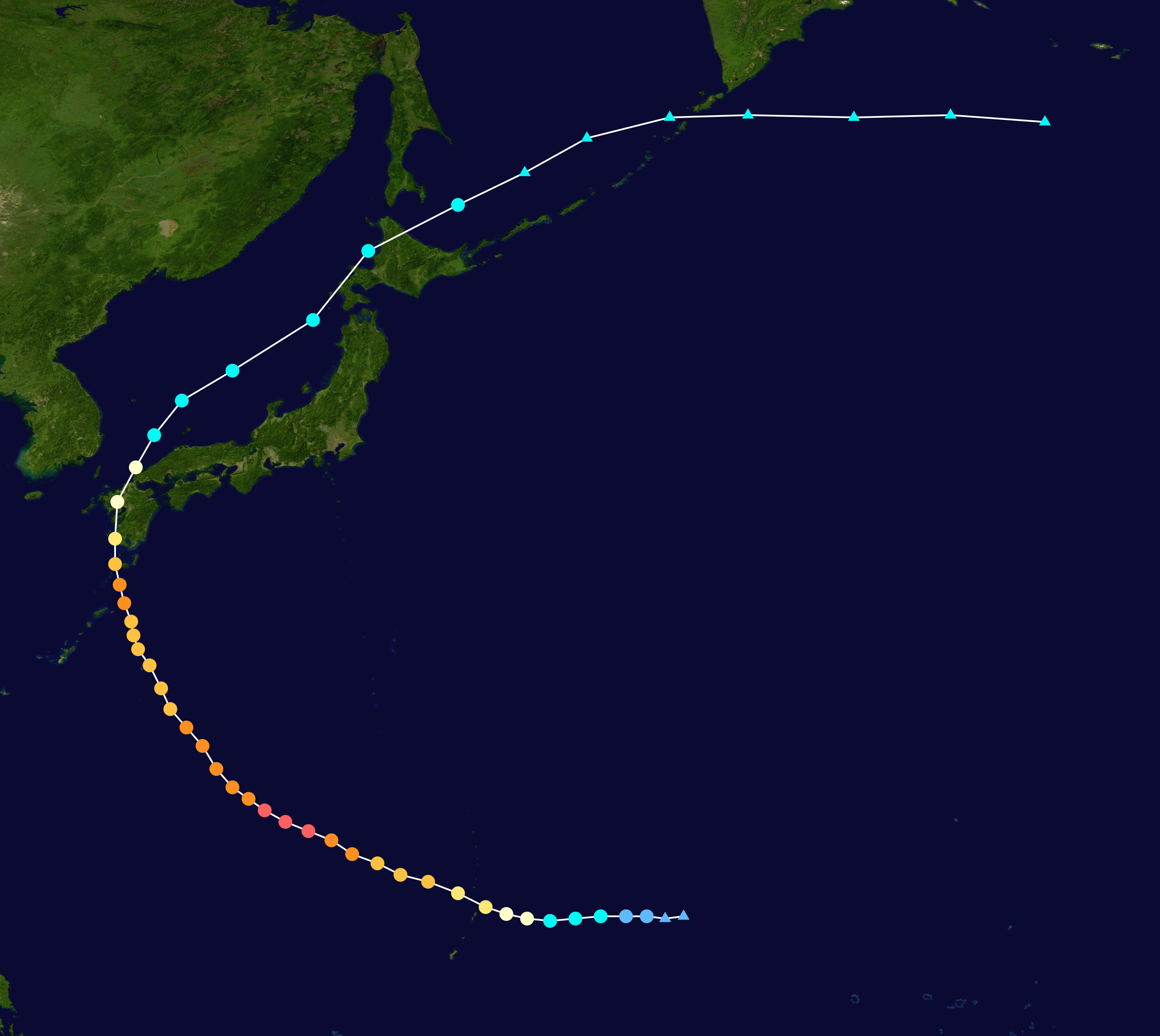 Typhoon Nabi 2005 track. Uses the color scheme from the Saffir-Simpson Hurricane Scale.